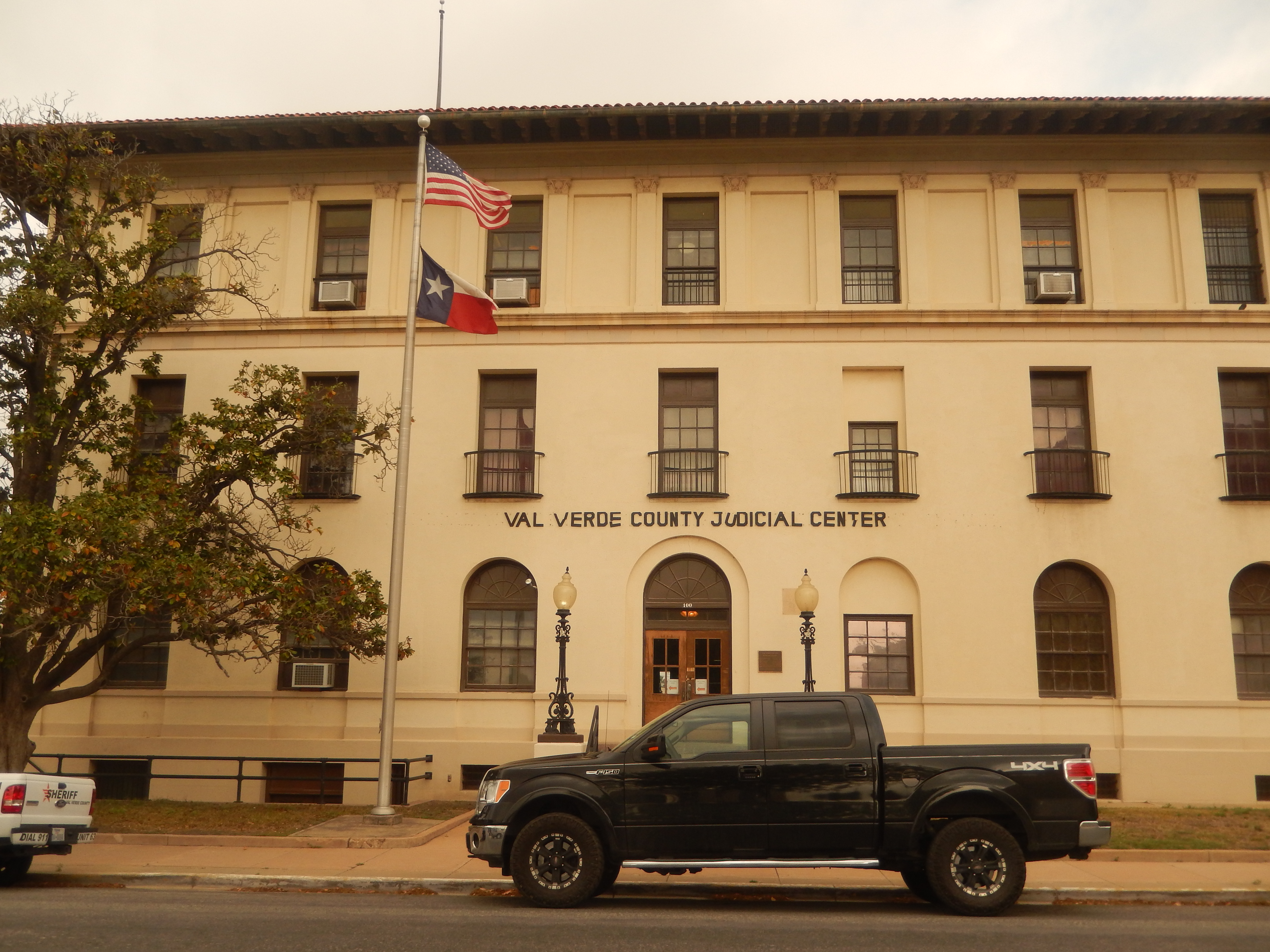 I took photo with Nikon camera of Val Verde County Justice Center in Del Rio, TX.